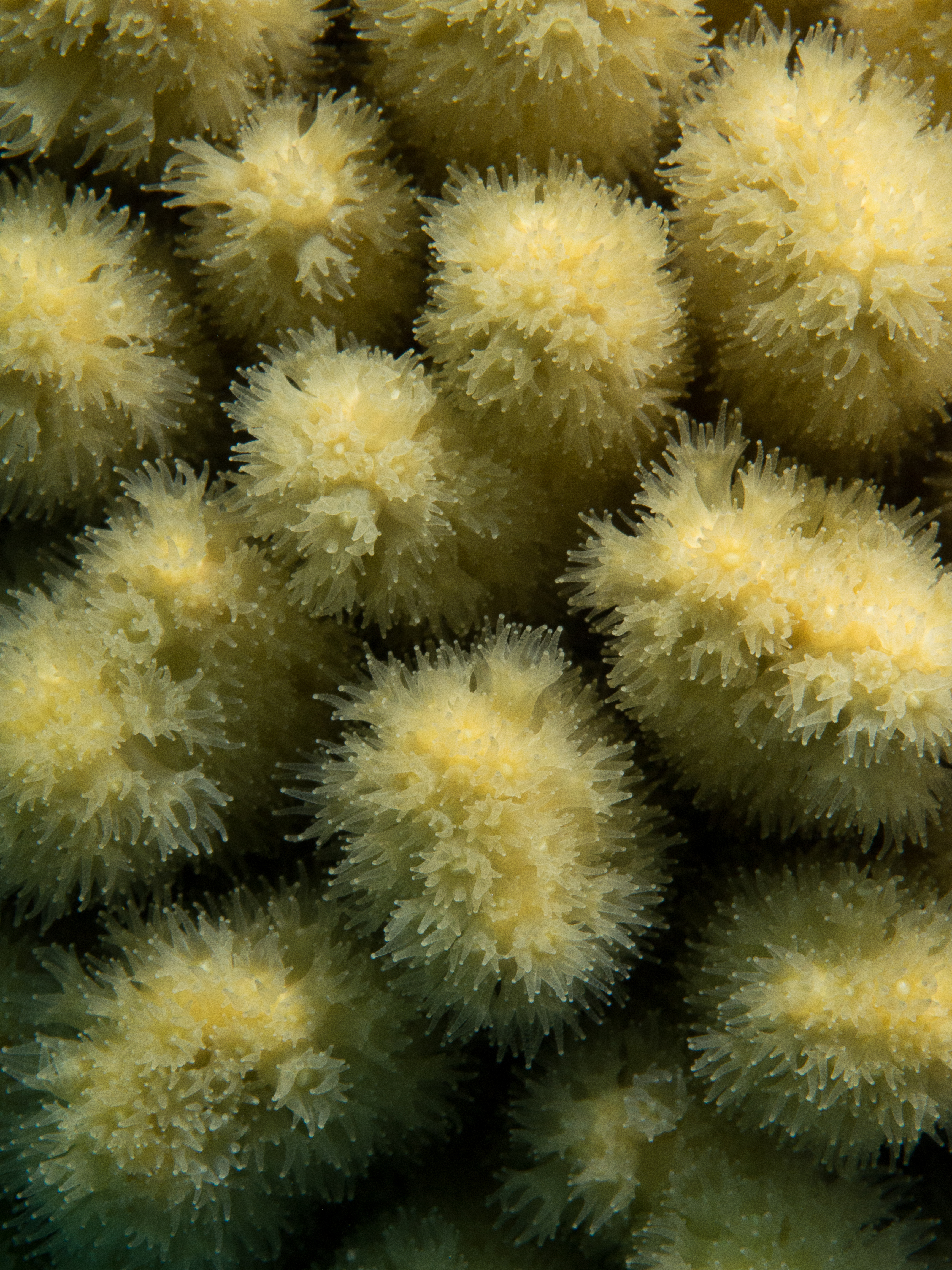 a closeup photo of Madracis auretenra showing the polyps. photographed in Bonaire at the Tolo dive site.